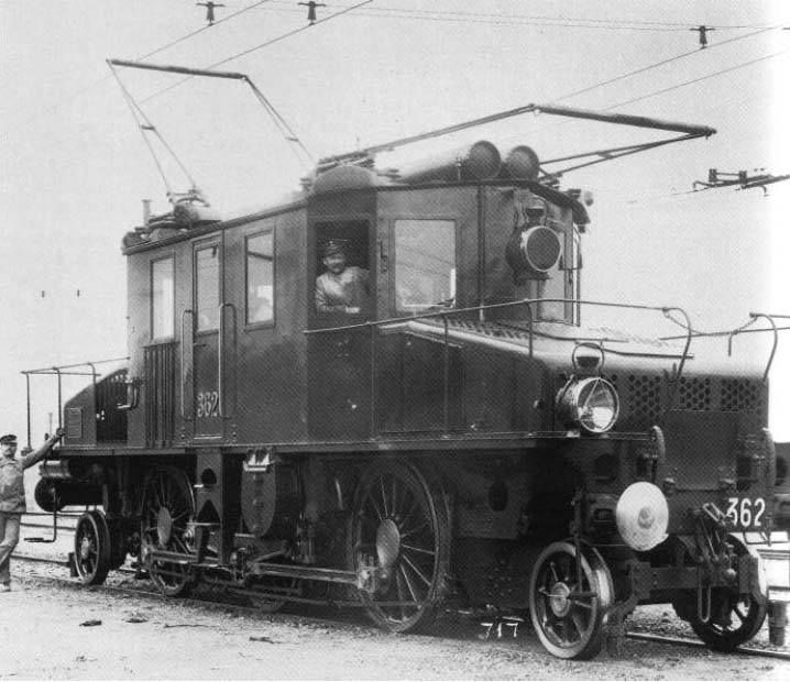 Three-phase electric locomotive 362 built for Valtellina line of Rete Adriatica by Ganz Budapest in 1902. Later FS class E.360